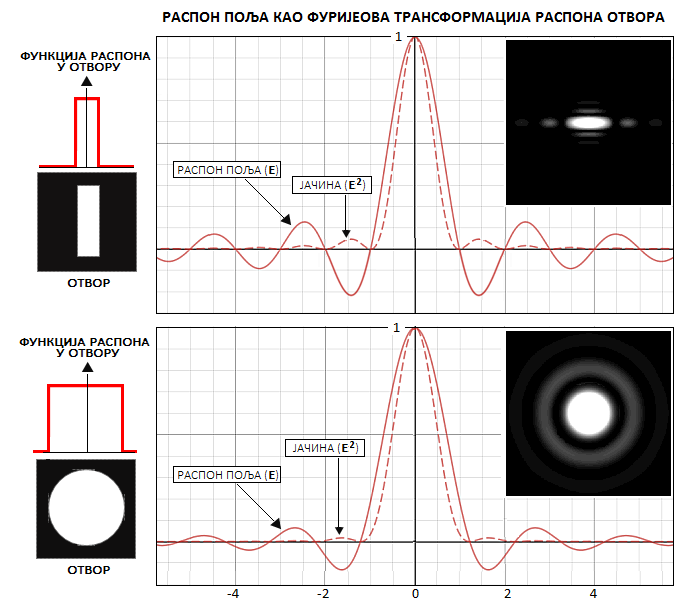 РАСПОН ПОЉА КАО ФУРИЈЕОВА ТРАНСФОРМАЦИЈА РАСПОНА ОТВОРА